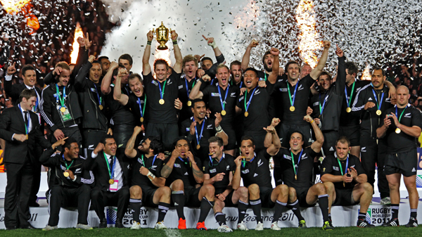 All Blacks celebrate after winning the 2011 Rugby World Cup